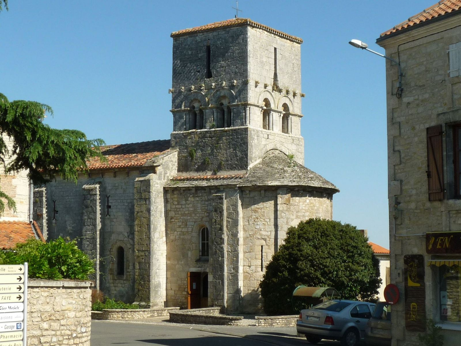 church of Saint-Angeau, Charente, SW France